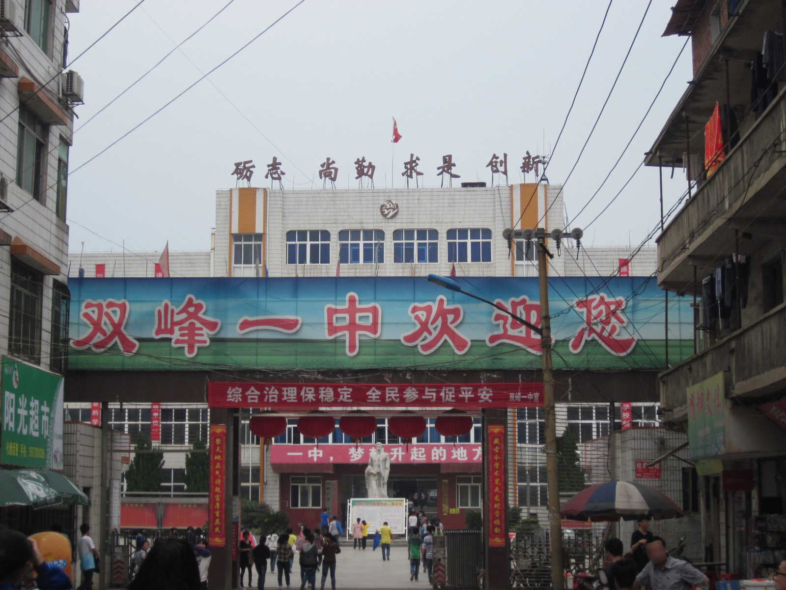 Shuangfeng county First Senior High School